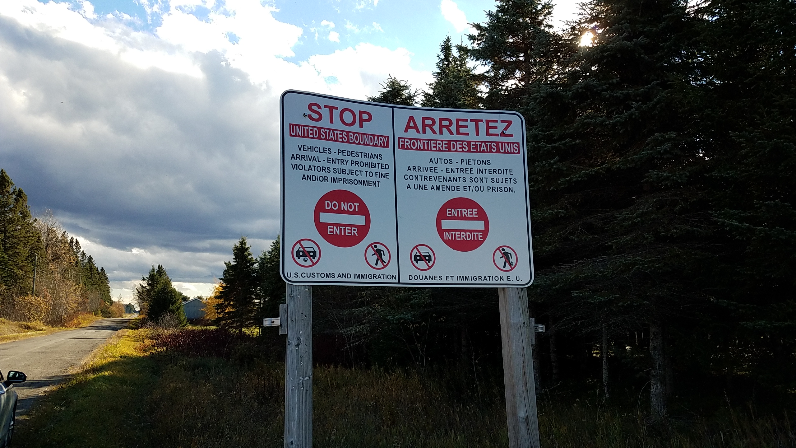 Border sign on Russel Road in Fort Fairfield, Maine, USA banning entry from Brown Road in Four Falls, New Brunswick, Canada